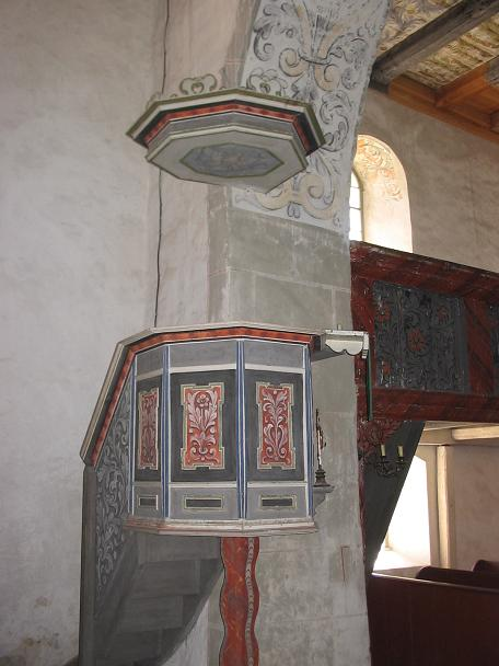 Stone church Raben, built in the first half of the13th century; pulpit (18th century). The village Raben is a part of the municipality Rabenstein/Fläming in the district Potsdam Mittelmark, state Brandenburg, Germany. Raben appertains to the natural preserve Naturpark Hoher Fläming.